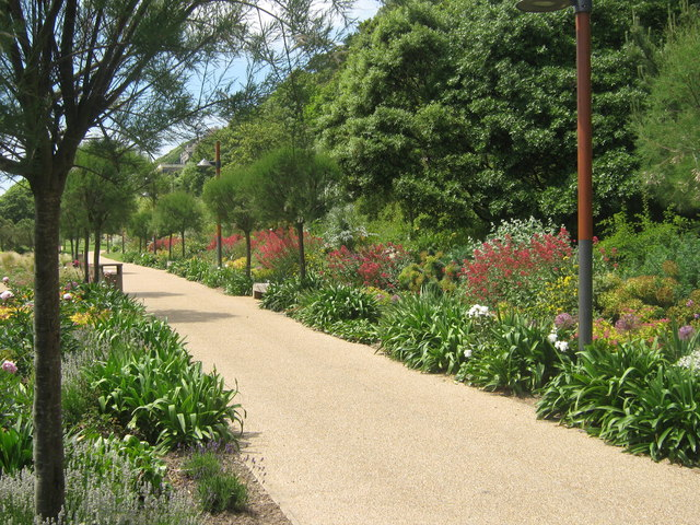 Flower Borders in Lower Leas Country Park Close to Folkestone Harbour is this much improved Country Park. The Lower Sandgate Road used to run through the park as a toll road. This has now been closed and turned into a wide footpath through the park. This flower border is close to the Leas Lift.